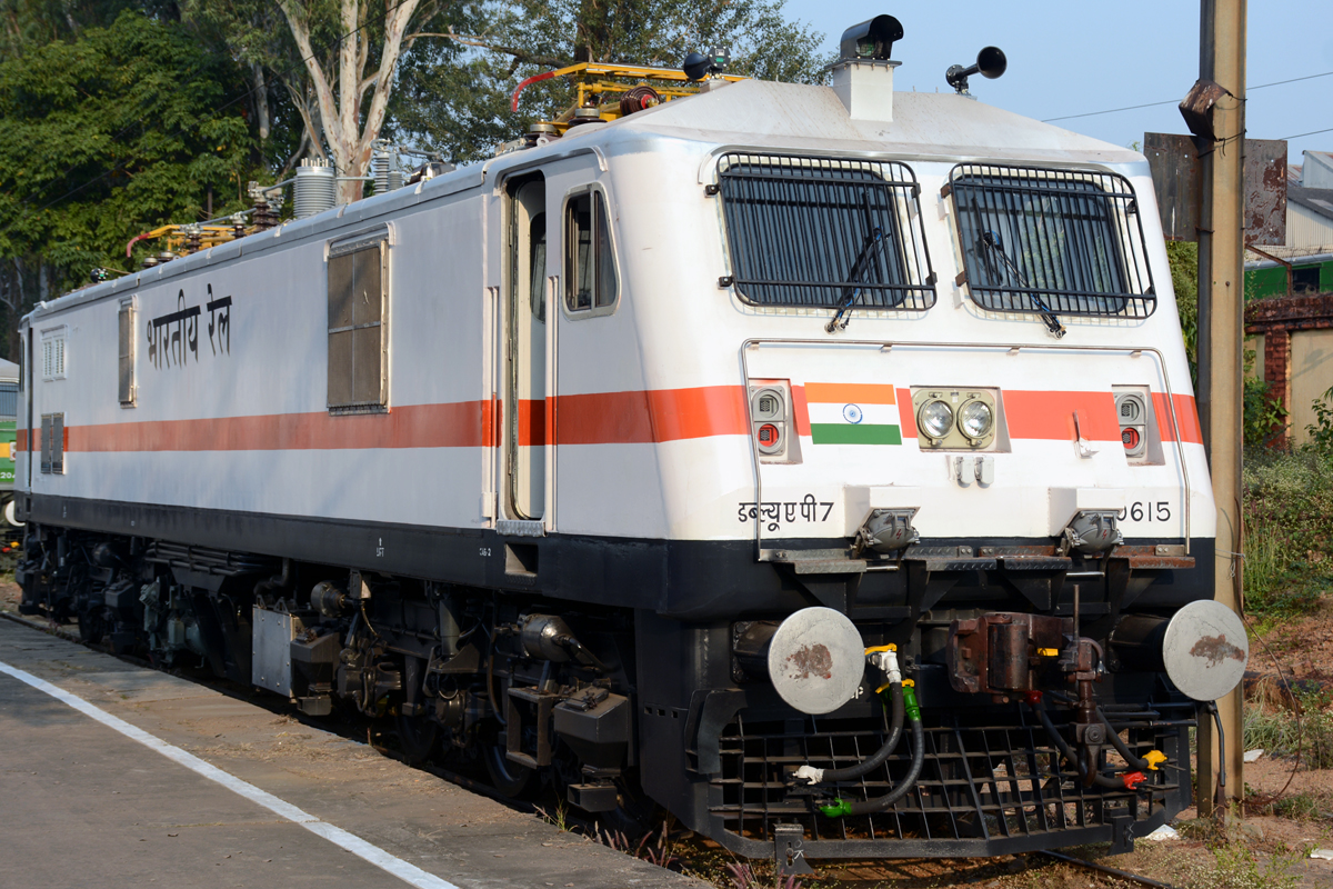 WAP-7 Loco AC coaching locomotive suitable for Hauling Mail/Express train and having 6000 HP, 140 KMPH, 20.5 axle load, 6 axle, energy Generation features